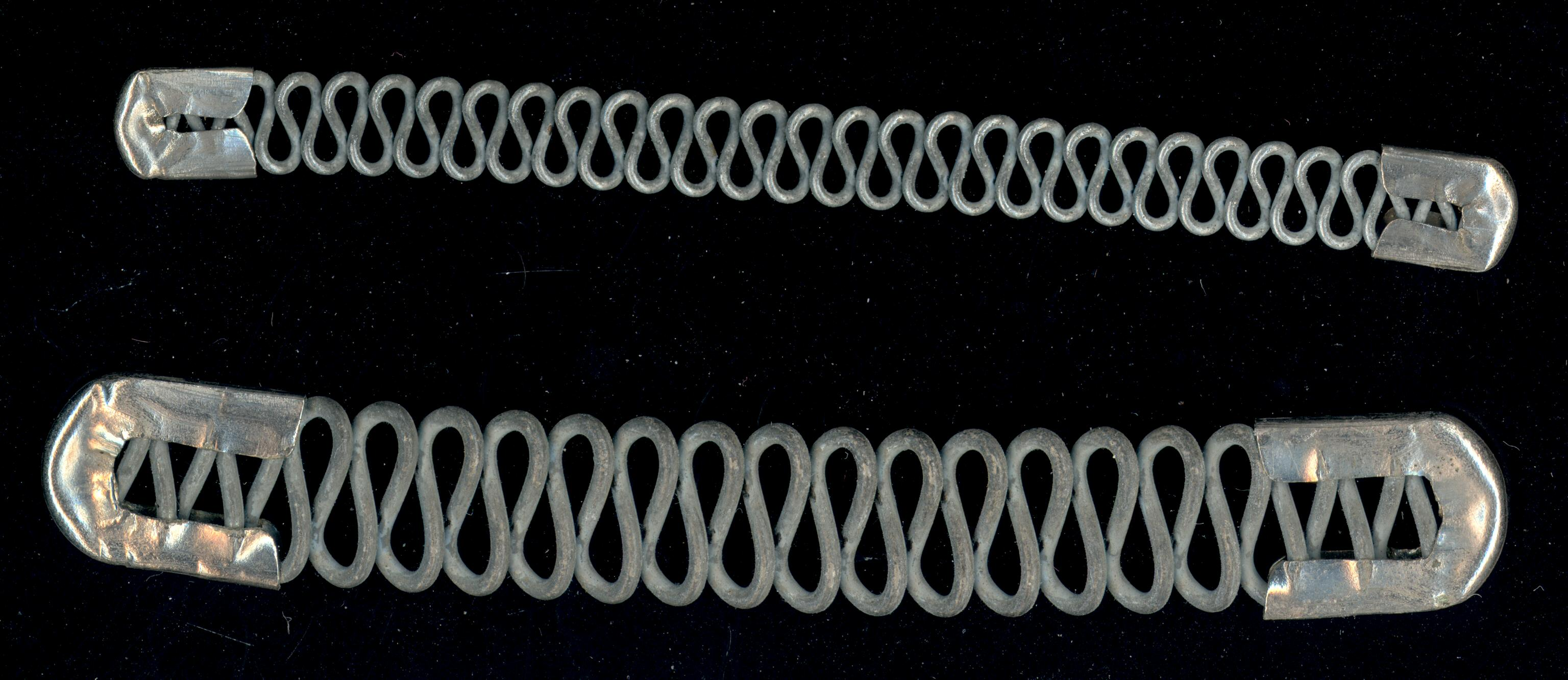 Spirella Stay 10mm and 5mm from 1912